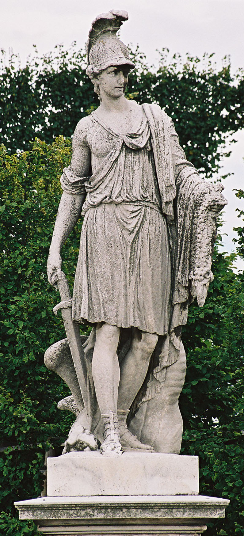 Vienna, Schönbrunn gardens, statue Jason with the Golden Fleece